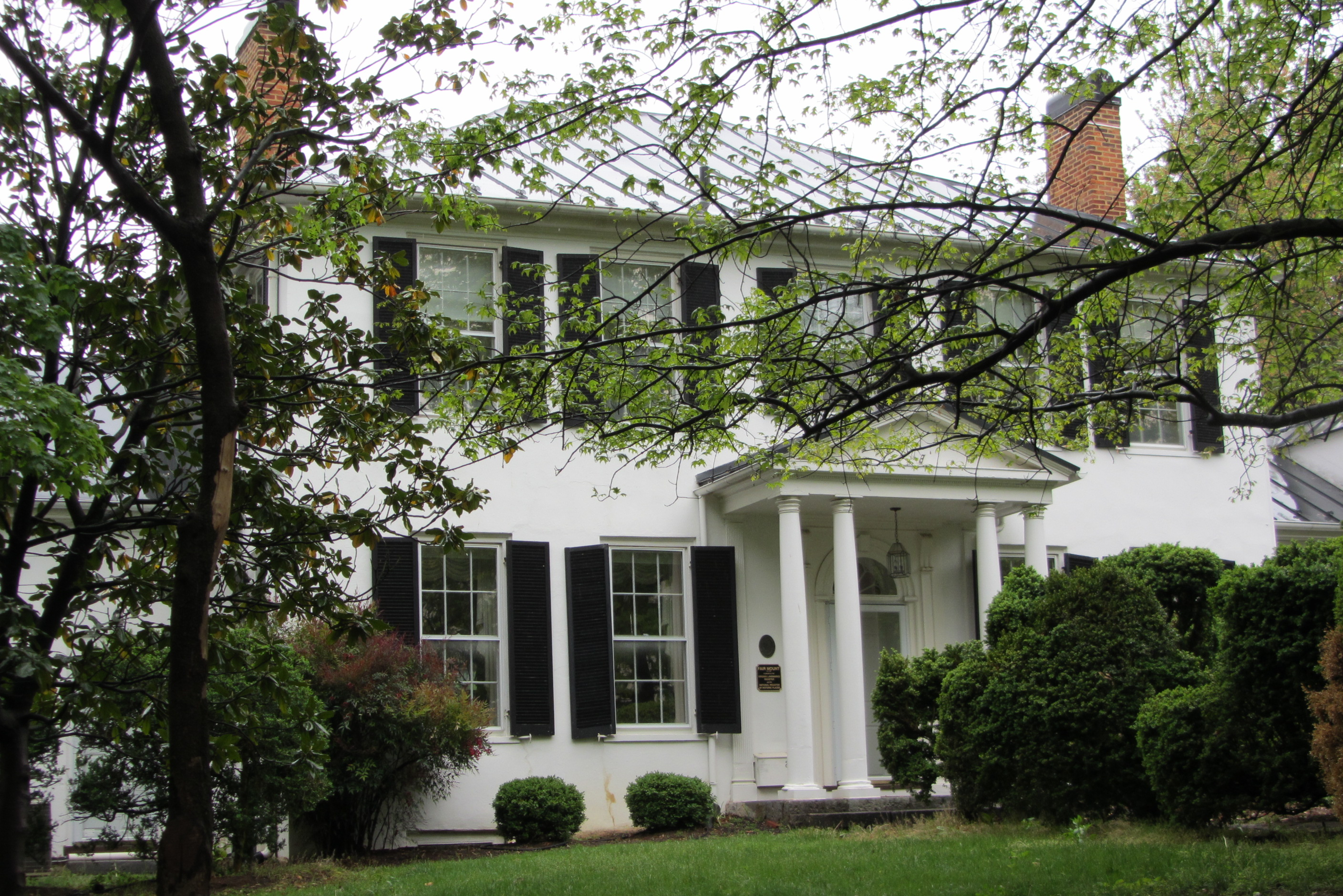 Fair Mount, 311 Fairmont Ave., Winchester, Virginia, USA